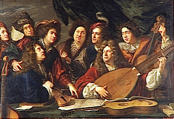 Traditionally the two main figures have been identified as the composer Jean-Baptiste Lully and the librettist Philippe Quinault